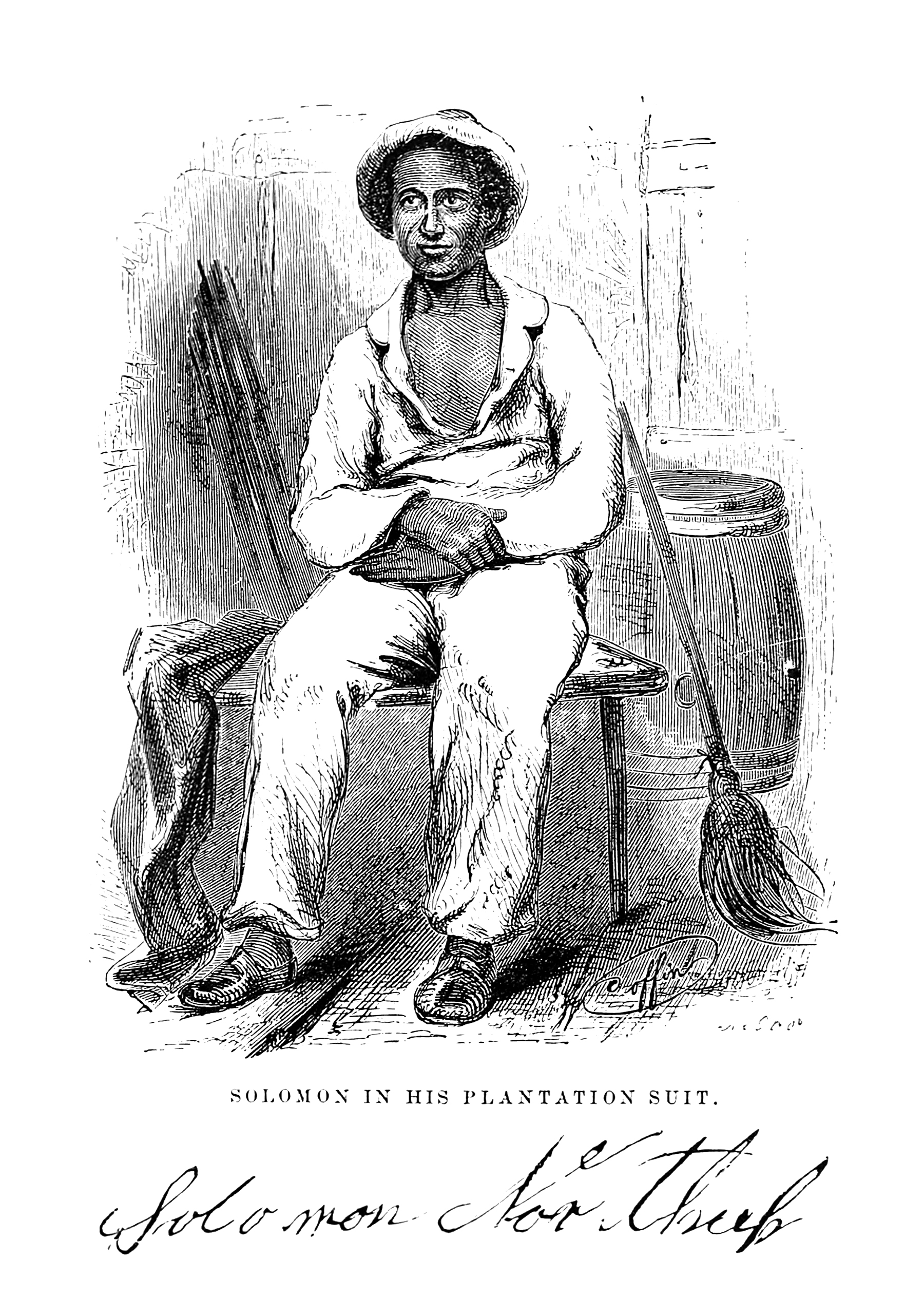 Sketch of Solomon Northup by Nebro